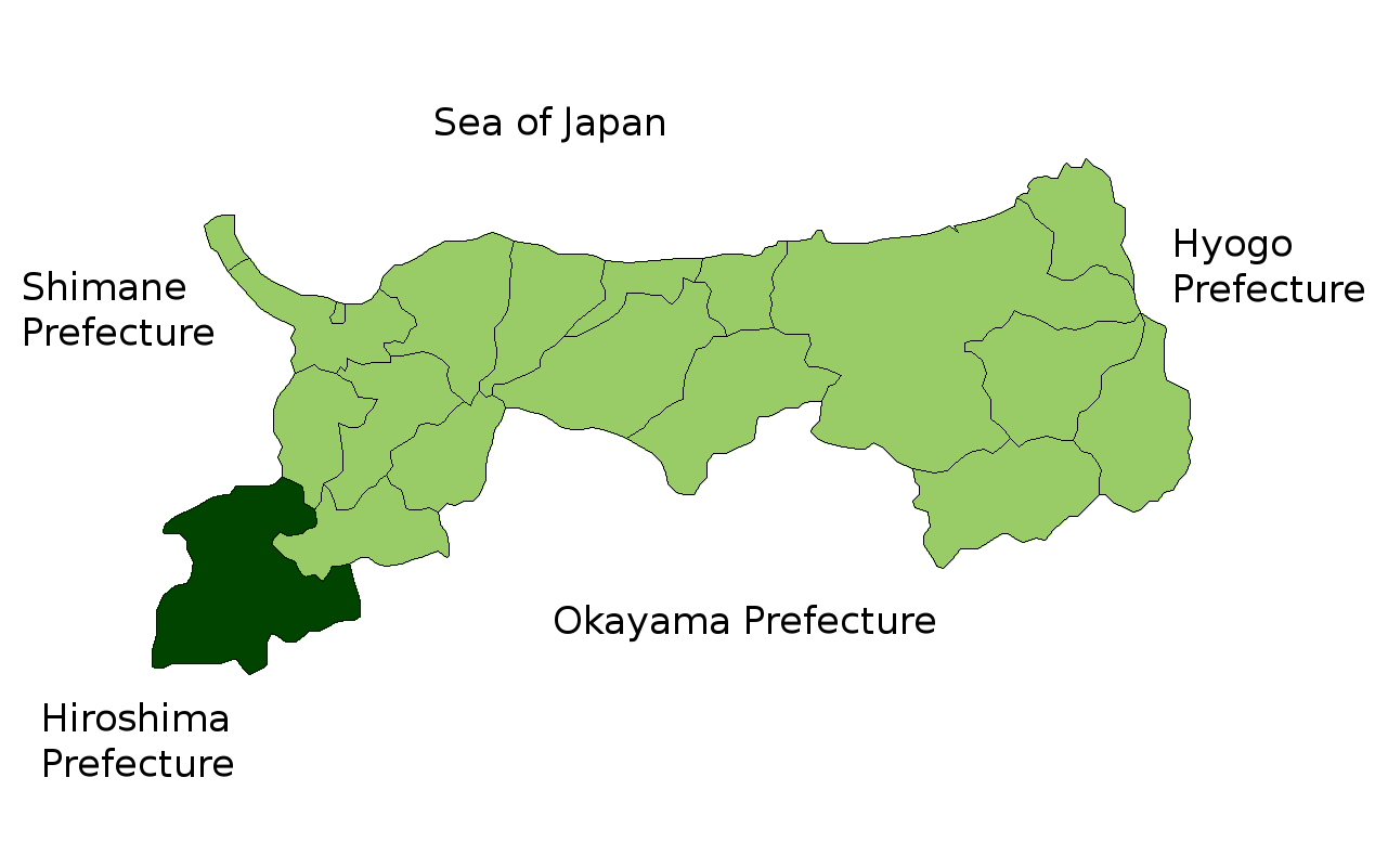 Map of Tottori Prefecture highlighting Nichinan town. Borders of map as of October, 2006. (blank map used from [1]) See also Image:TottoriMapCurrent.png